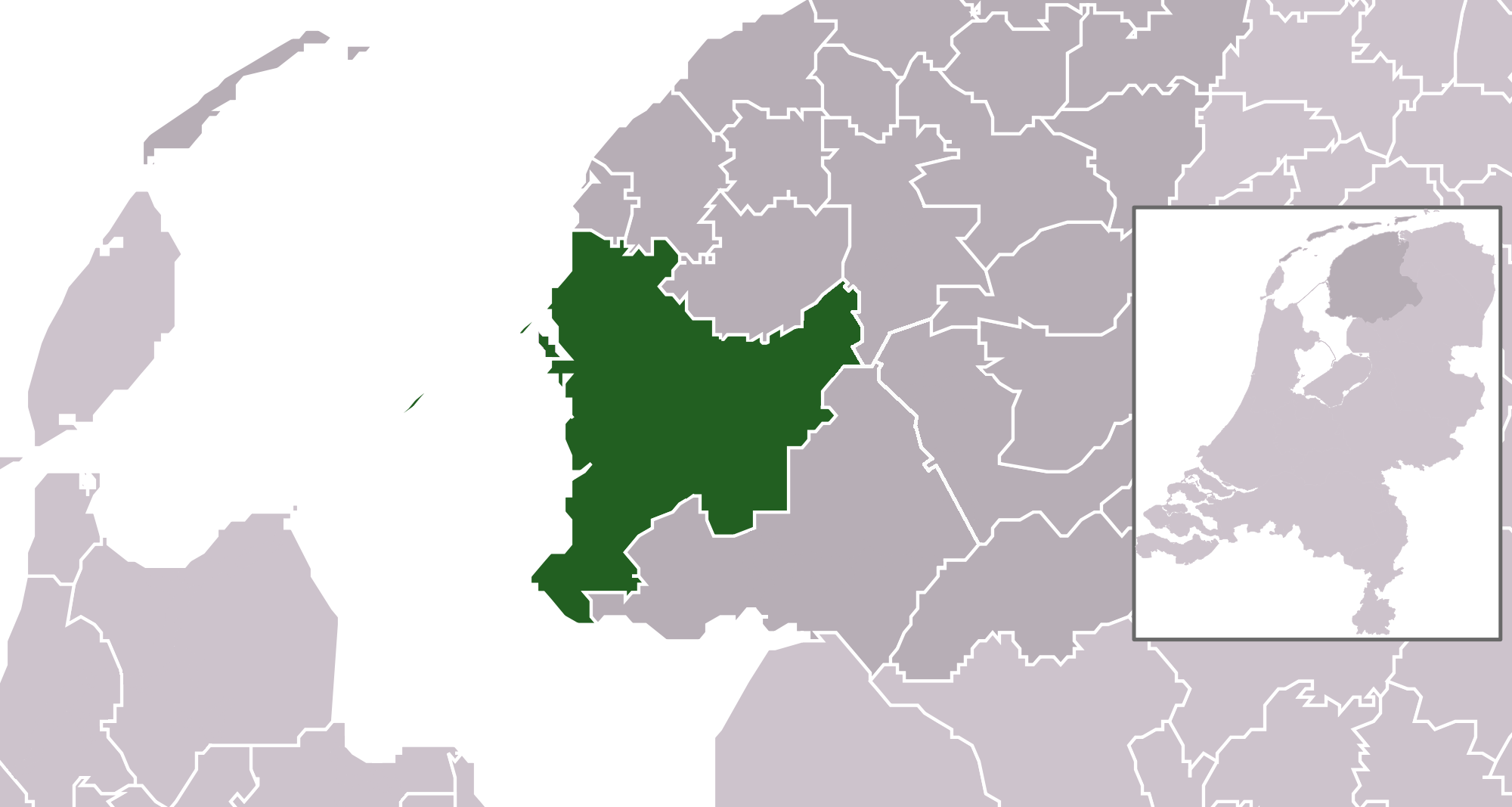 File name contains "Municipality code" (CBS-code) as specified in: [1] Created in svg using coordinate data derived from ESRI data published by Centraal Bureau voor de Statistiek, Voorburg/Heerlen. ([2]) Color coding and original design (slightly adpated by me) by user Mtcv (2006/2007) ([3]) Changed version with the new muncipalities Súdwest Fryslân, De Friese Meren, Hollandse Kroon and the muncipalities which area has increased: Heerenveen, Medemblik, Schagen and Leeuwarden. 2014 The copyright holder of this file, Centraal Bureau voor de Statistiek, allows anyone to use it for any purpose, provided that the copyright holder is properly attributed. Redistribution, derivative work, commercial use, and all other use is permitted. Attribution: Centraal Bureau voor de Statistiek This work is free and may be used by anyone for any purpose. If you wish to use this content, you do not need to request permission as long as you follow any licensing requirements mentioned on this page.